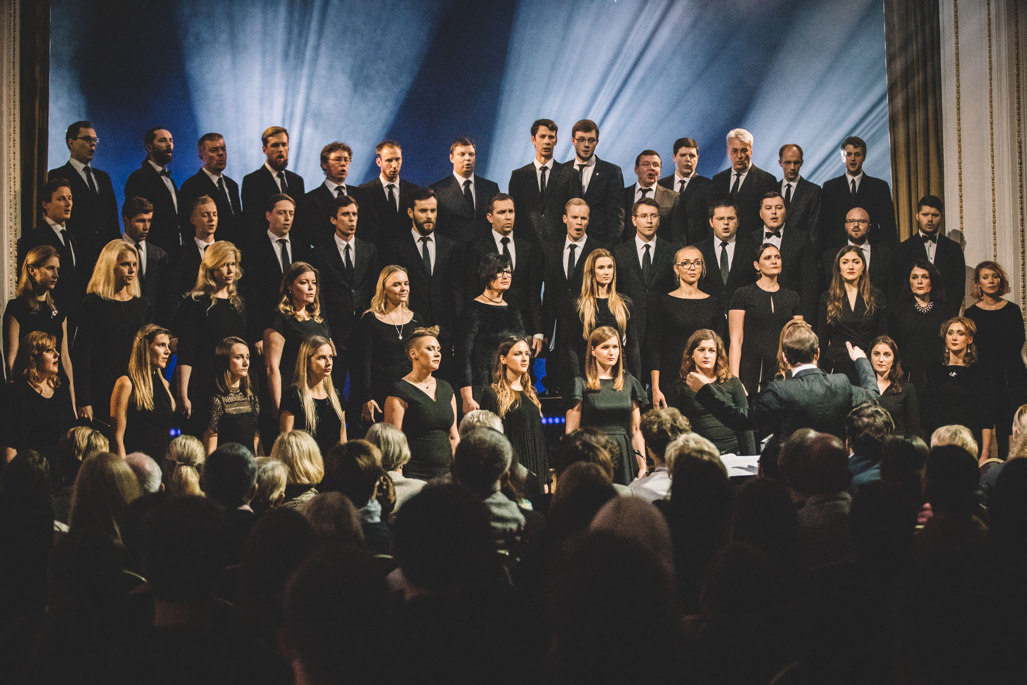 Choir Bel Canto Vilnius during their performance in Vaidila theatre in 2017